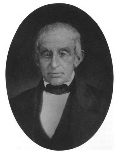 Frederick Ludington in 1852 - son of Colonial Henry Ludington. He was born on June 10, 1782 and died in 1853.